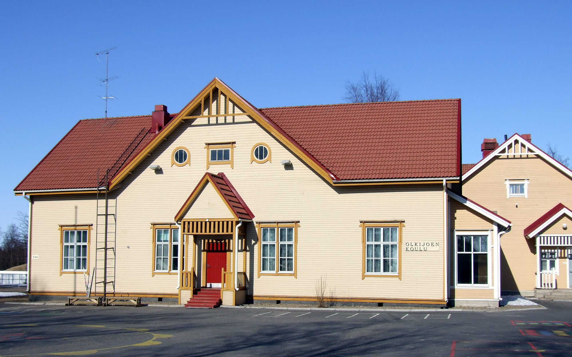 The school of village Olkijoki in the municipality of Raahe. The school has been built in 1919.